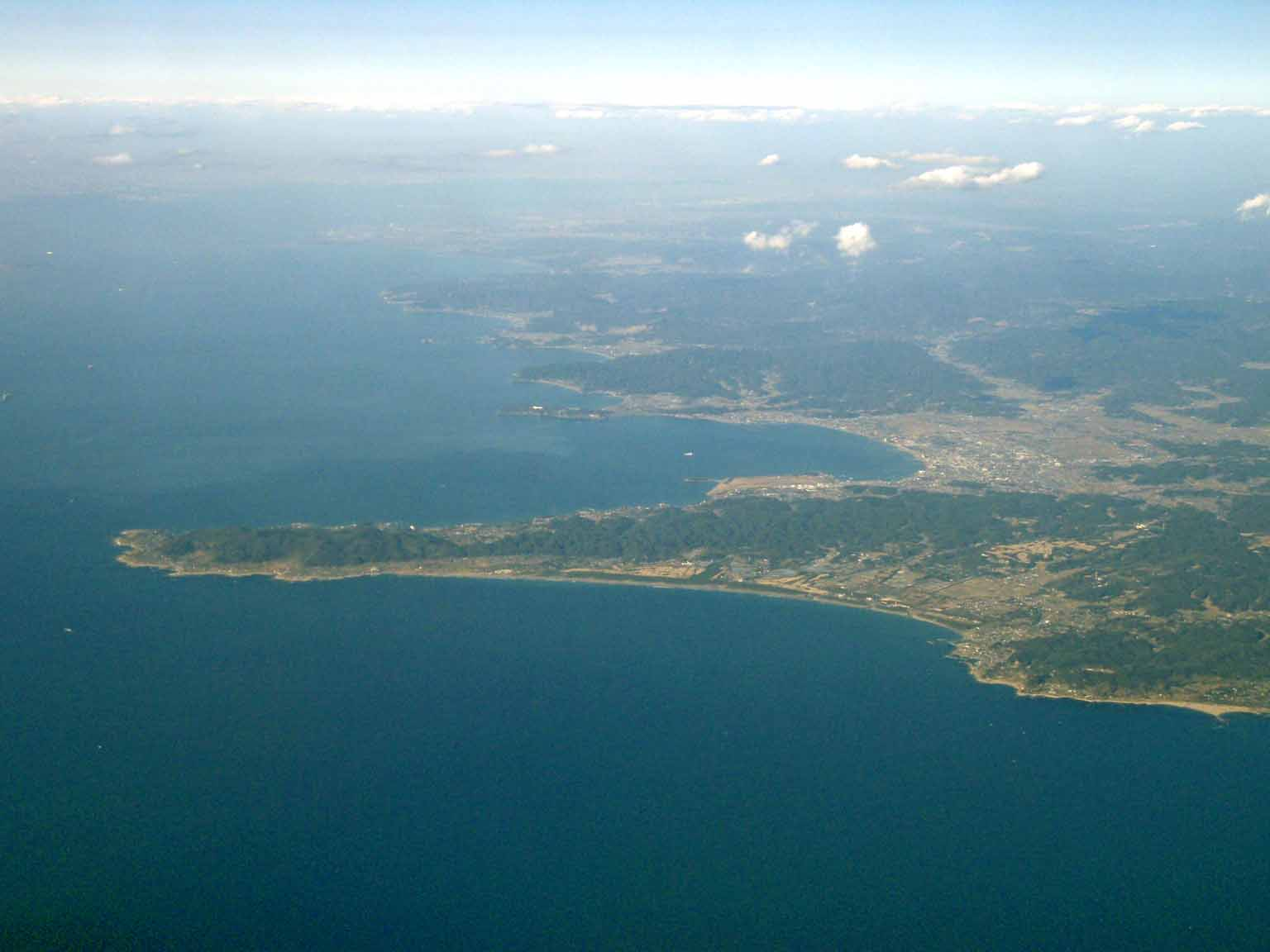 Aerial Photograph of Cape Sunosaki at Boso Peninsula (JAPAN) in 2007.